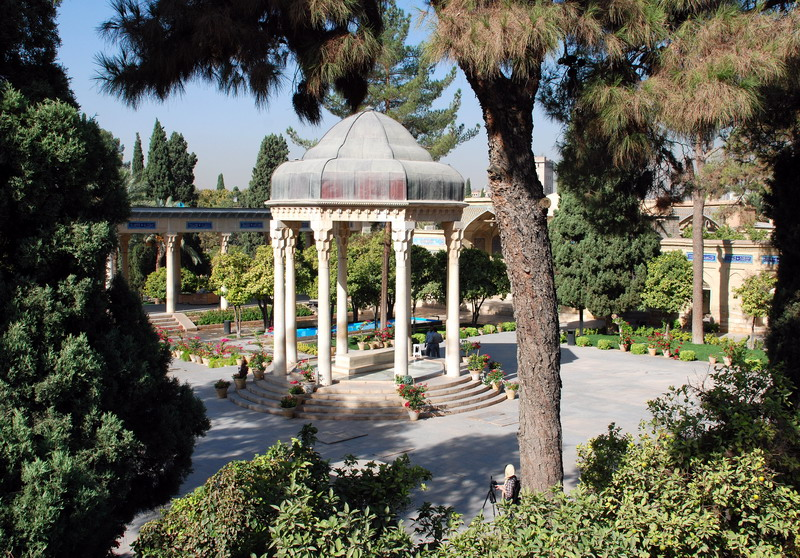 Photo taken by Amir Hussain Zolfaghary